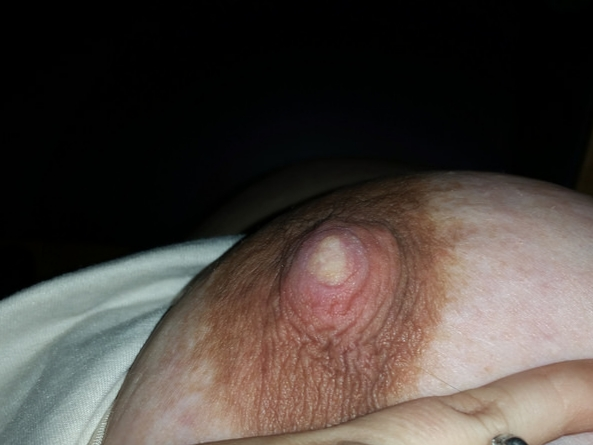 Vasospasms in the nipples can cause pain and difficulty breastfeeding. This can be caused by Reynaud's and can also be exacerbated by certain drugs icluding the commonly prescribed blood pressure medication labetalol. Cold air can cause the nipple to spam, restricting the flow of milk. It also causes pain.